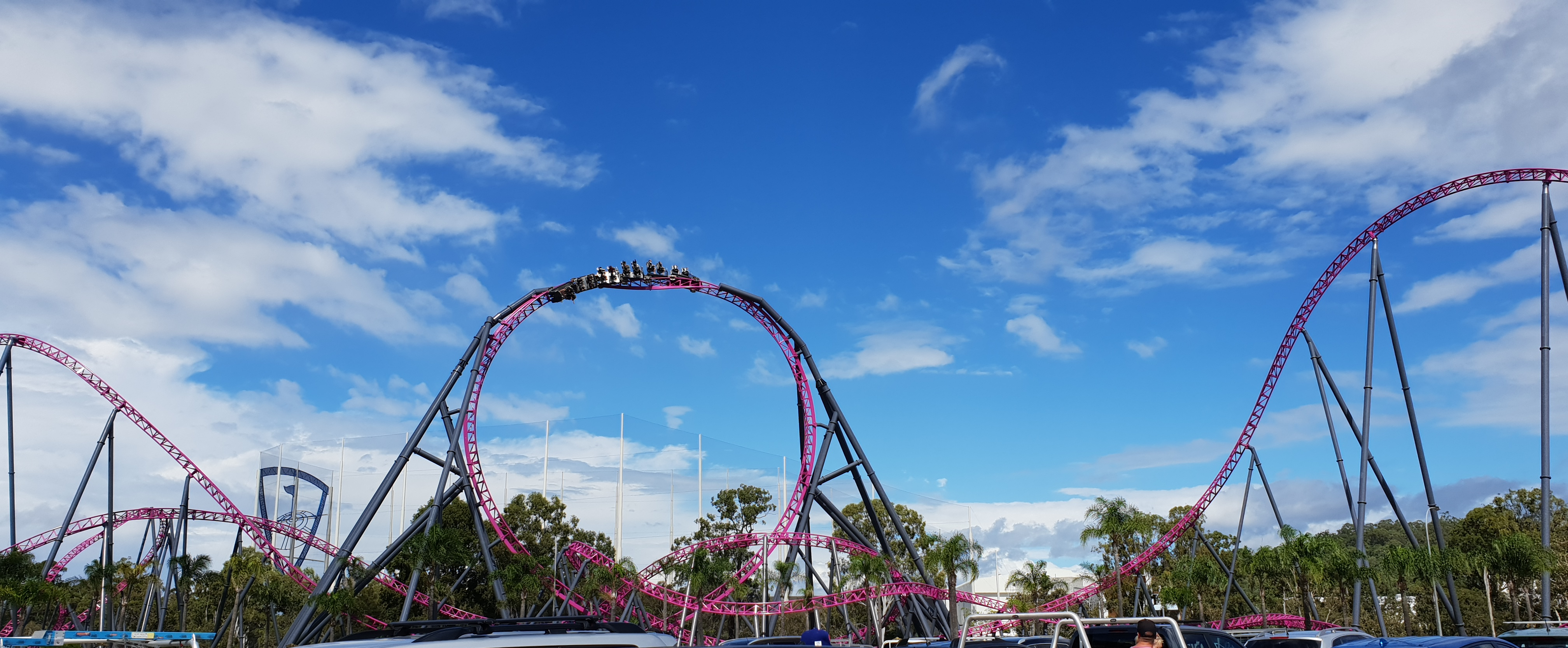 The Non-Inverted Loop for DC Rivals HyperCoaster at Warner Bros. Movie World.